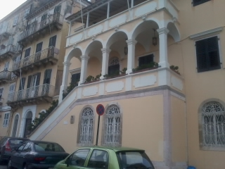 Anagnostiki Etairia Kerkyras at Corfu town (1836)